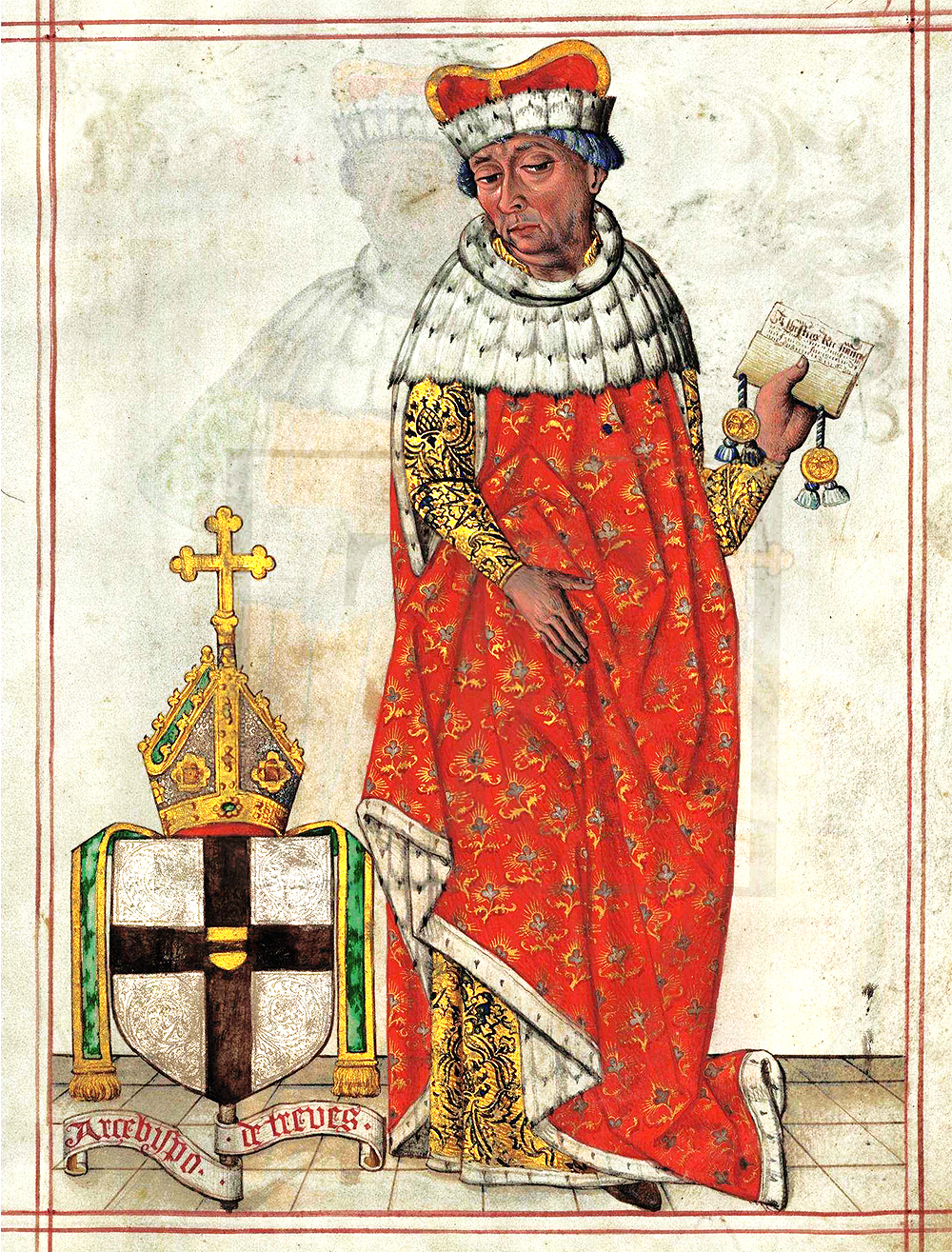 Archibishop of Trier